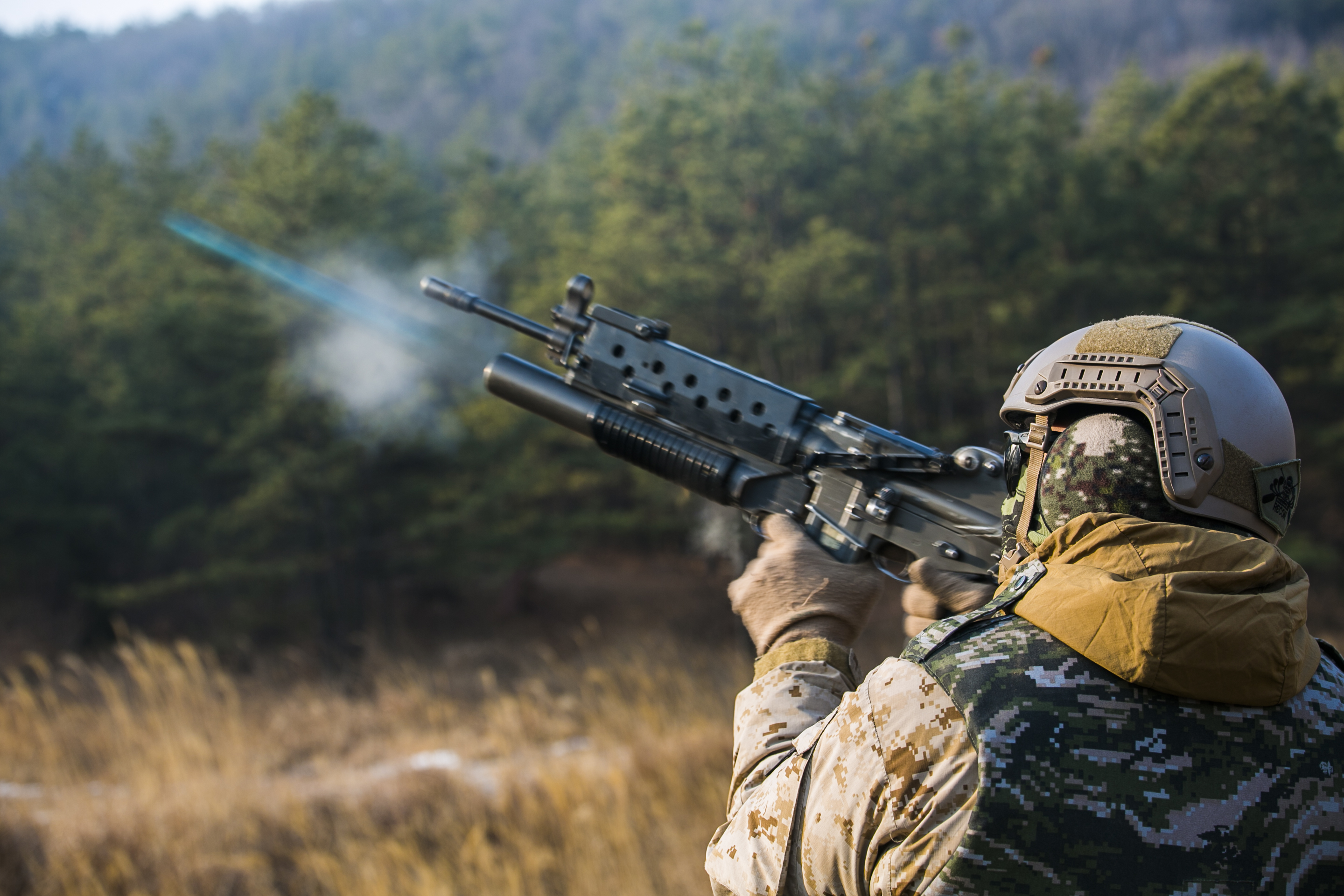 U.S. Marine Cpl. Richard J. Bennaugh fires training rounds from a Daewoo K201 grenade launcher Feb. 5 during Korean Marine Exchange Program 15-3 at Gimpo, Republic of Korea. The U.S. Marines fired six training rounds and then watched a live fire shoot demonstrated by Republic of Korea Marines. The U.S. Marines were given the unique opportunity to also test out the Daewoo K1 submachine gun, Daewoo K5 handgun, the Daewoo K2 assault rifle and the Daewoo K14 sniper rifle. Bennaugh, from Pittsburgh, Pennsylvania, is a reconnaissance man with Alpha Company, 3rd Reconnaissance Battalion, 3rd Marine Division, III Marine Expeditionary Force. (U.S. Marine Corps photo by Cpl. Tyler S. Giguere/Released)